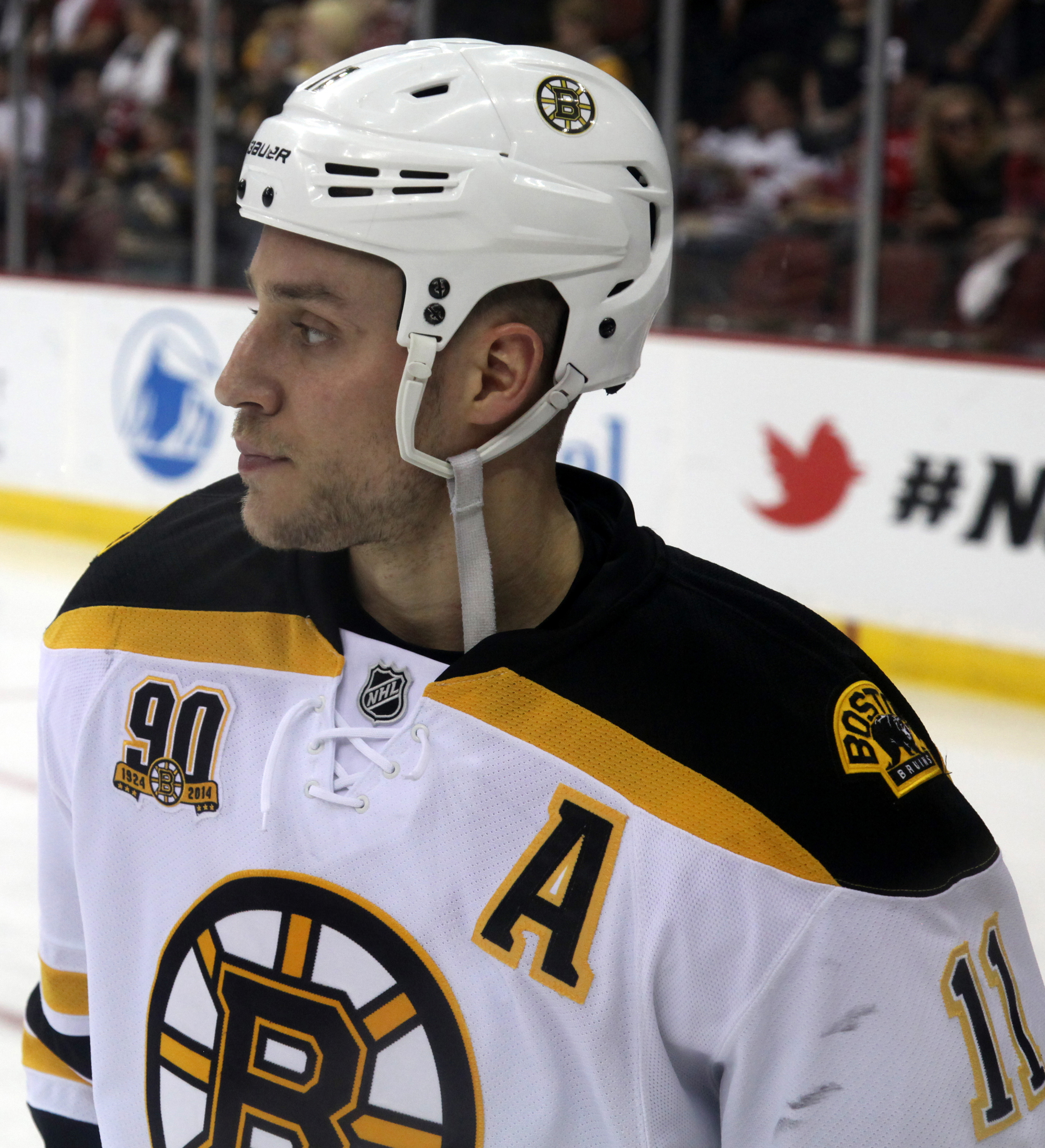 Gregory Campbell in 2014, wearing the "A" for the Boston Bruins.